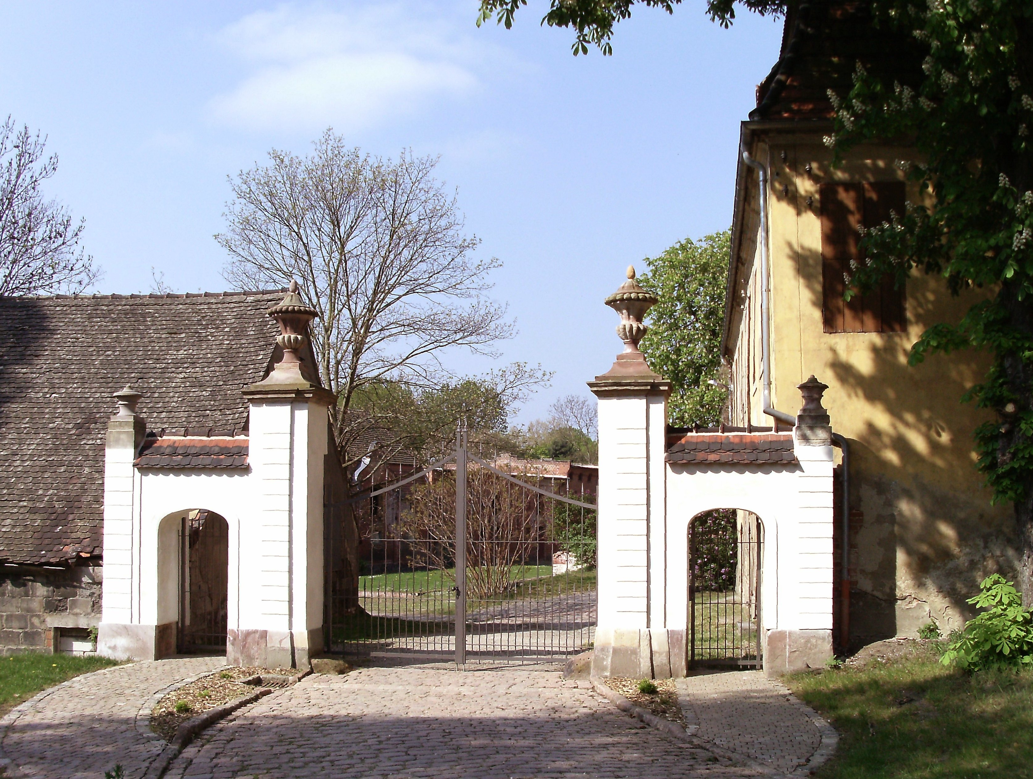 Entry to Ermlitz estate (Schkopau, district of Saalekreis, Saxony-Anhalt)